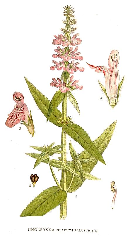 Original Description Knölsyska, Stachys palustris L.